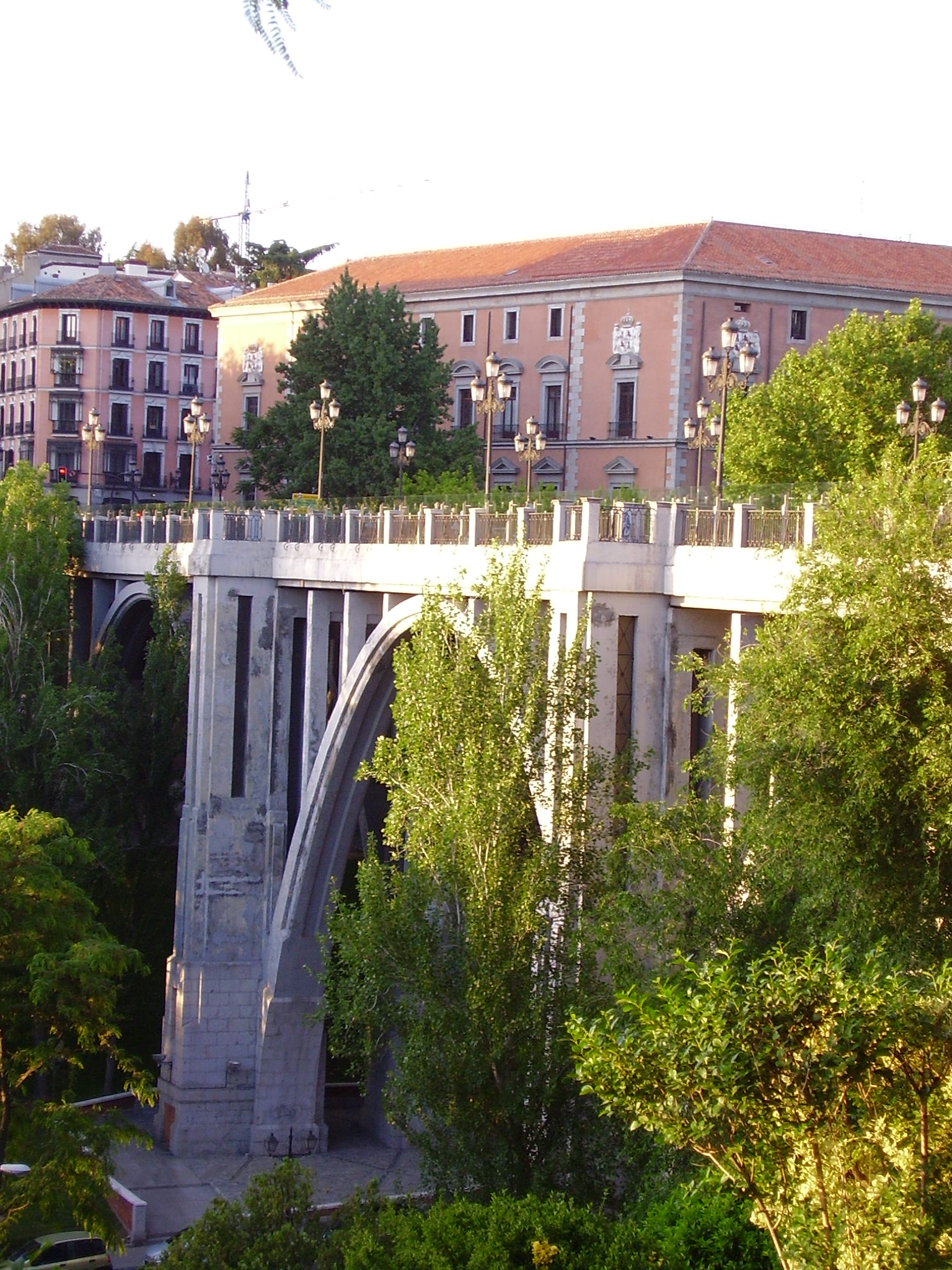 Imagen del Viaducto de Madrid entre los Barrios de Palacio y Latina - a picture from the famous Madrid viaduct, which connects the neiborhoods of Latina and Palacio